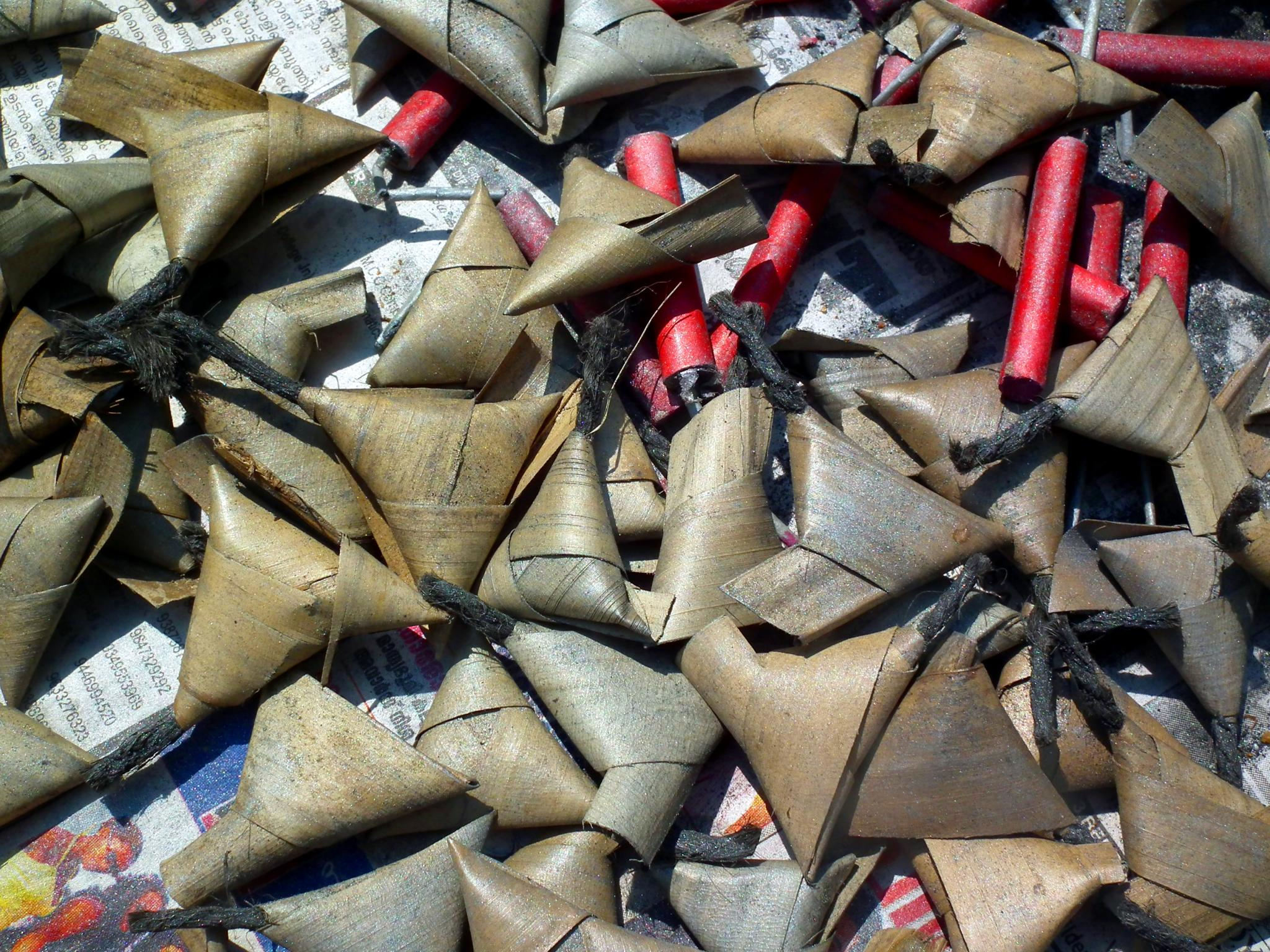 A firecracker (also known as a cracker, noise maker, banger, or bunger) is a small explosive device primarily designed to produce a large amount of noise, especially in the form of a loud bang; any visual effect is incidental to this goal. They have fuses, and are wrapped in a heavy paper casing to contain the explosive compound